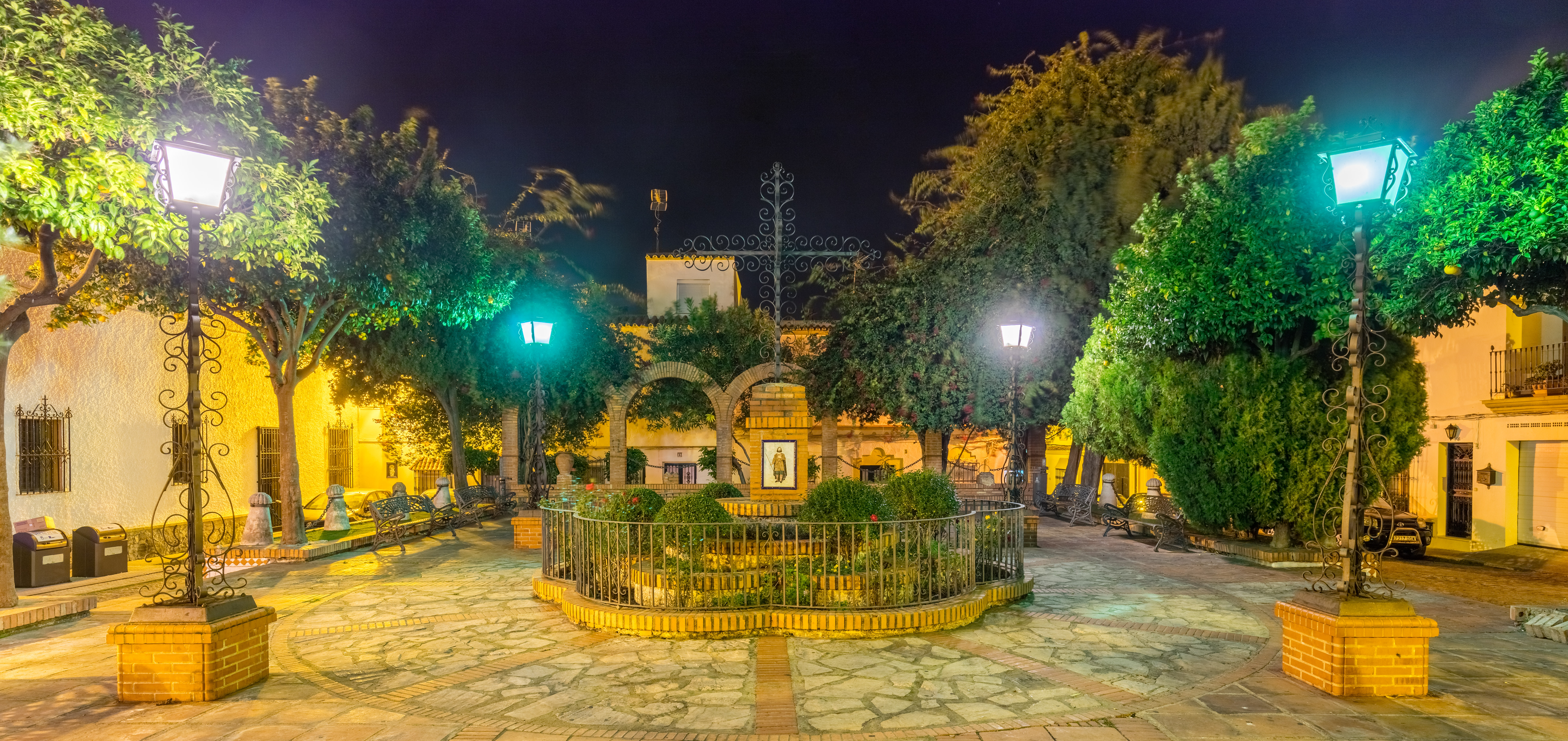 San Isidro Square, Algeciras, Cádiz, Spain